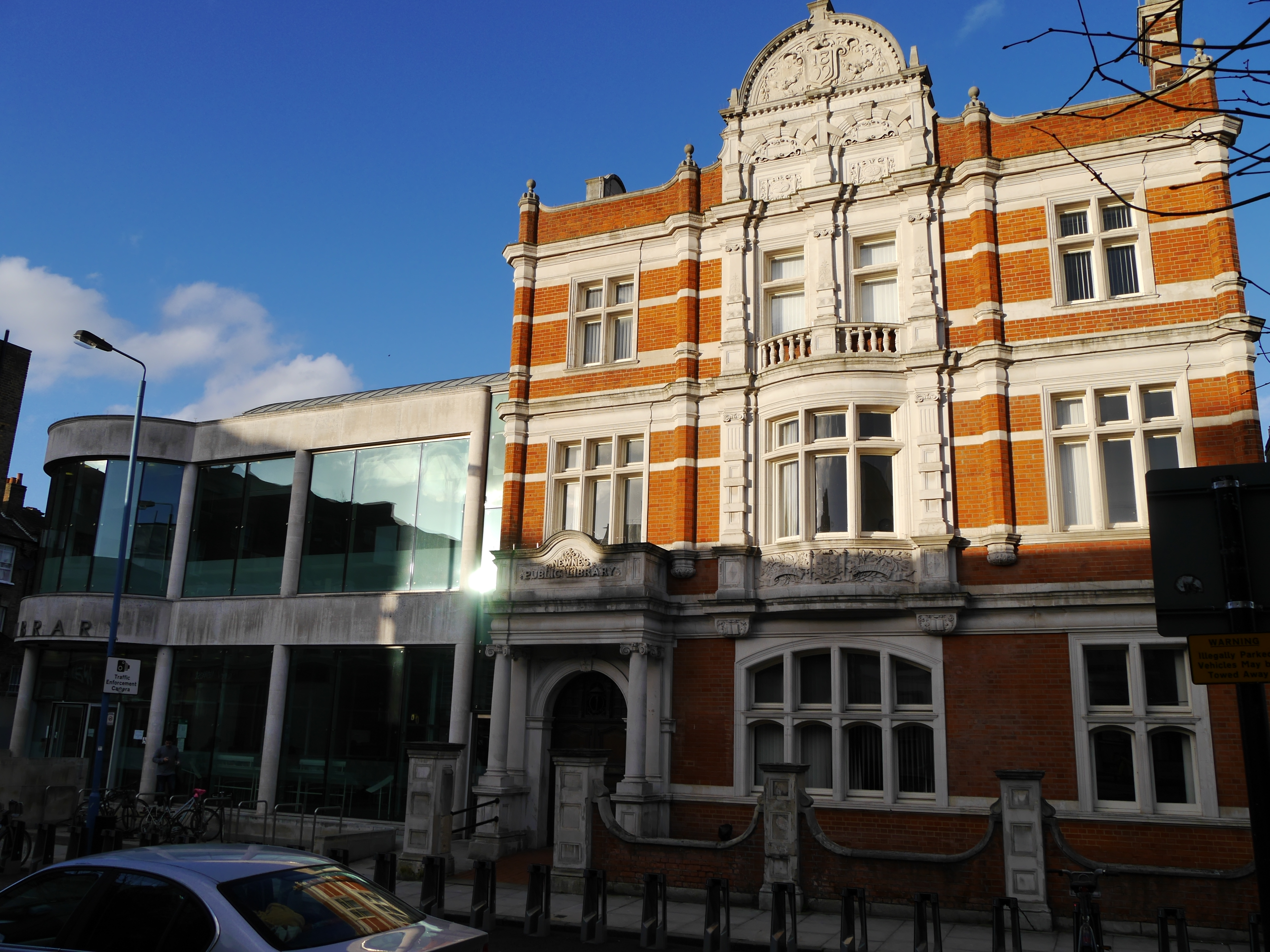 Putney Library